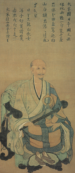 Portrait of Bujun Shiban (絹本著色無準師範像, kenpon chakushoku Bujun Shiban zō) from Tōfuku-ji, Kyoto dated to the Southern Song Dynasty, 1238. Bujun Shiban (1177–1249) (alt reading: Bushun Shiban, ch: Wuzhun Shifan) was a Chinese zen priest. Hanging scroll, 124.8 cm x 55.2 cm. Color on silk.